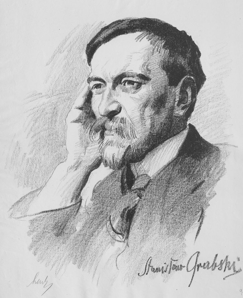 Stanisław Grabski's portrait by S. Lentz.